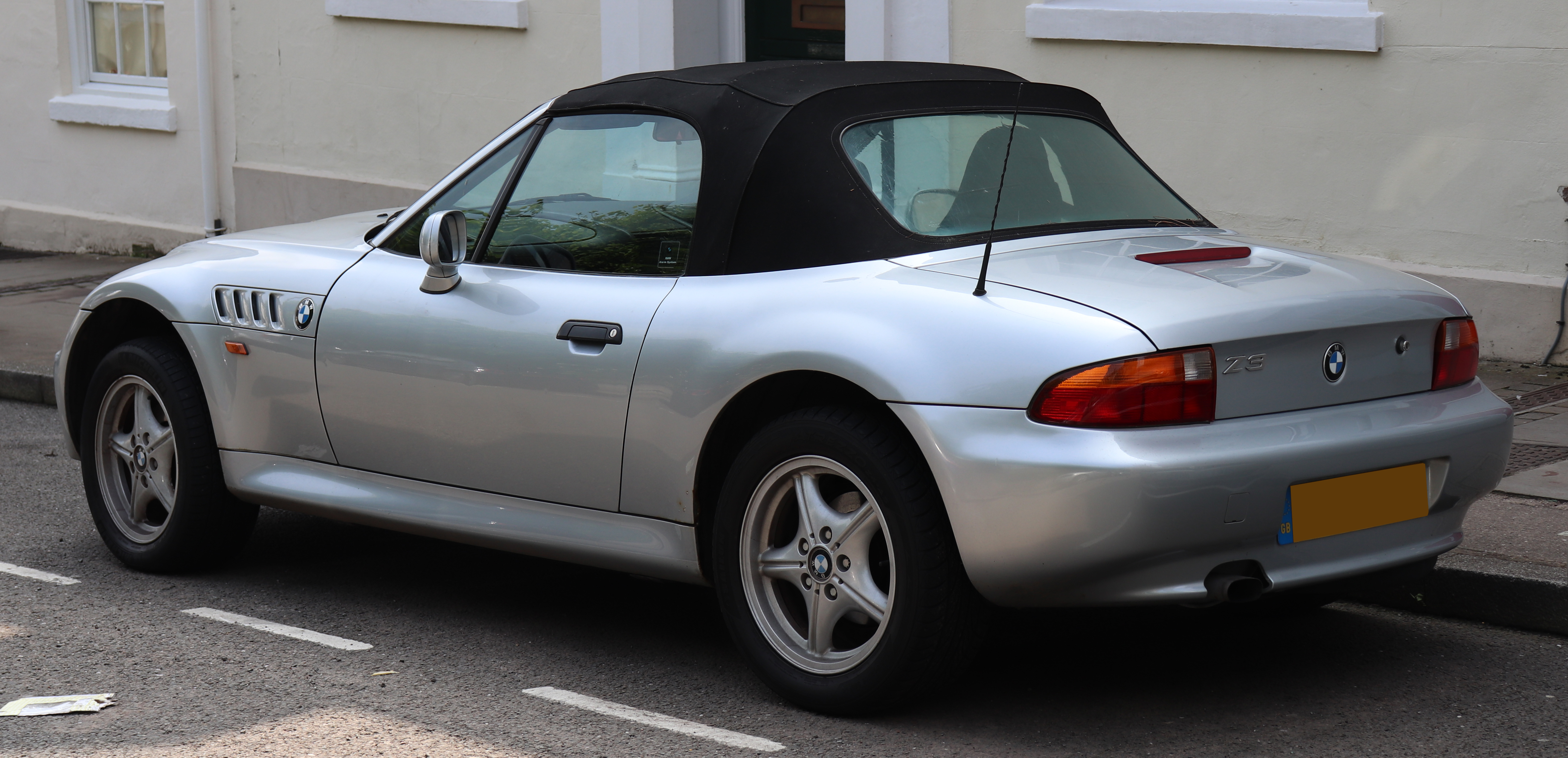 1998 BMW Z3 1.9 Rear Taken in Warwick